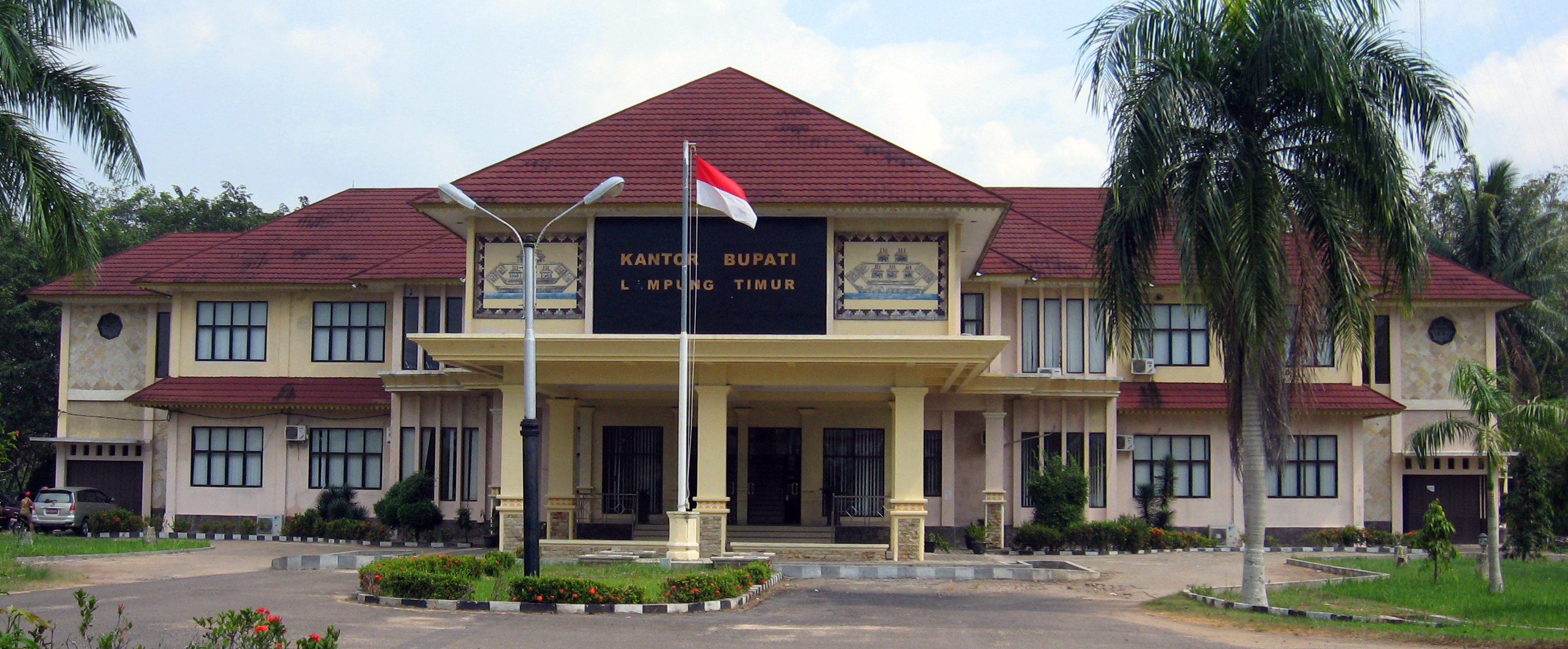 The East Lampung Regent's Office, located in Sukadana, Indonesia